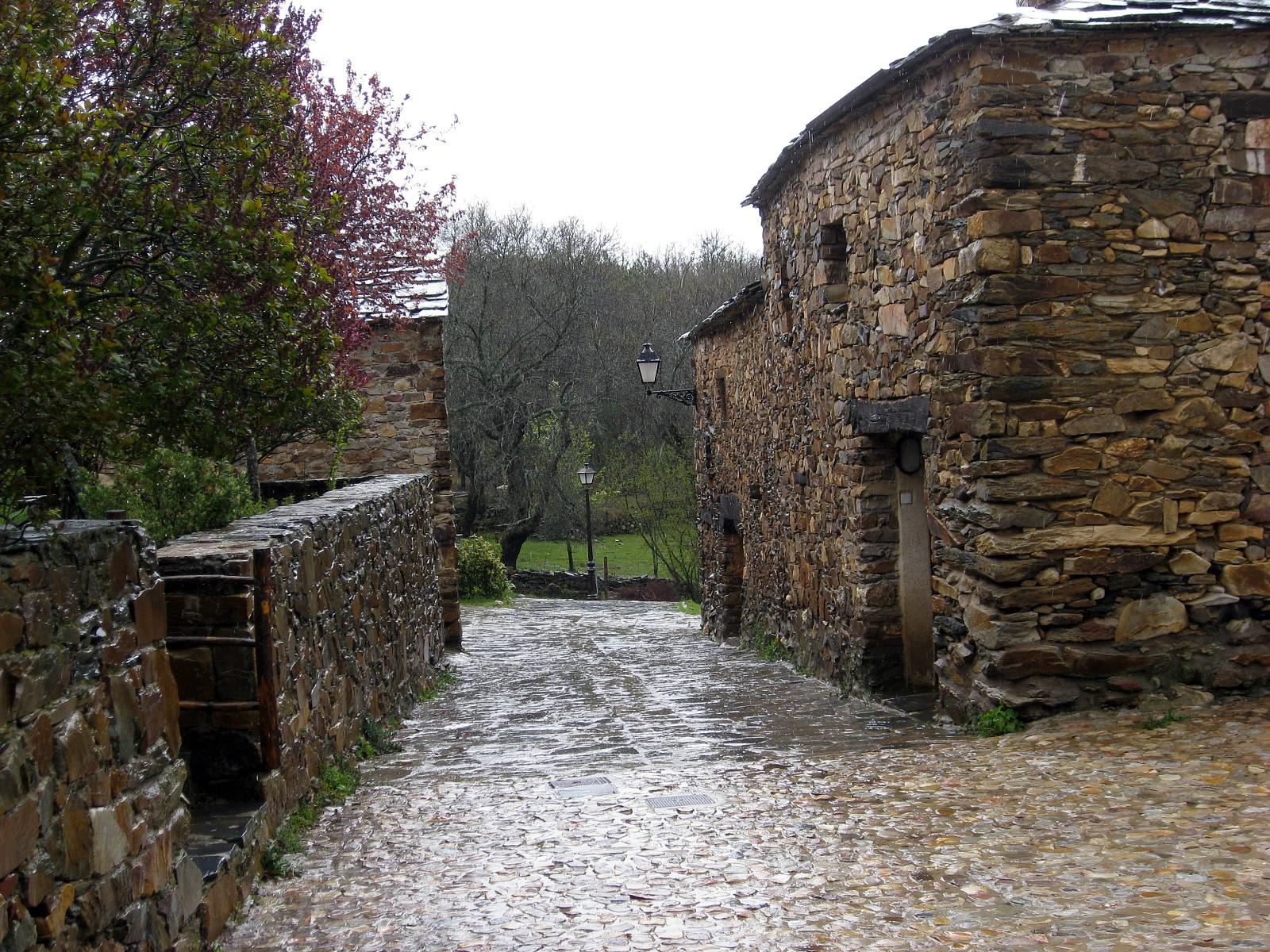 Street of Umbralejo, La Huerce, Guadalajara, Spain.